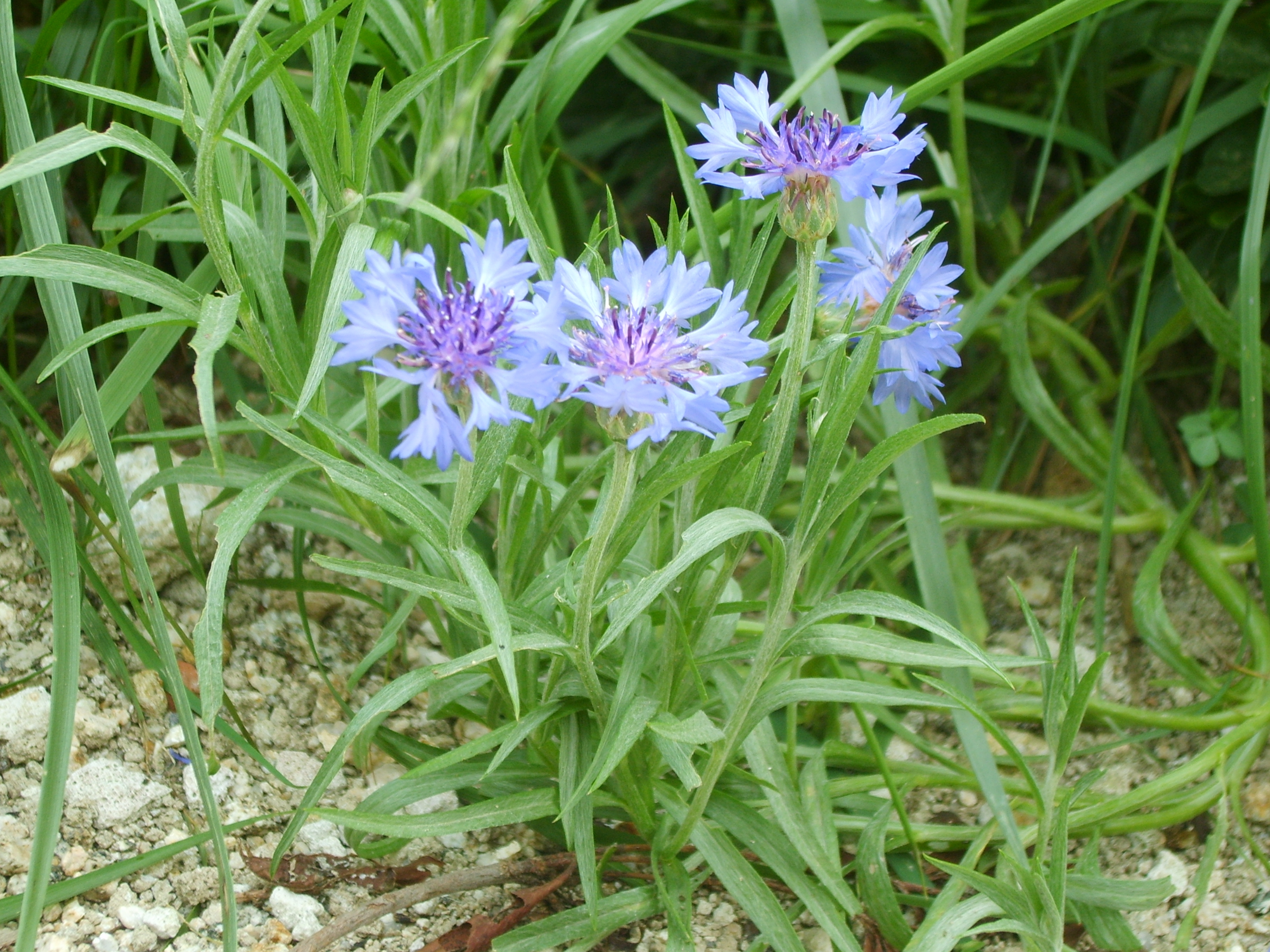 Centaurea cyanus in Incheon, Korea